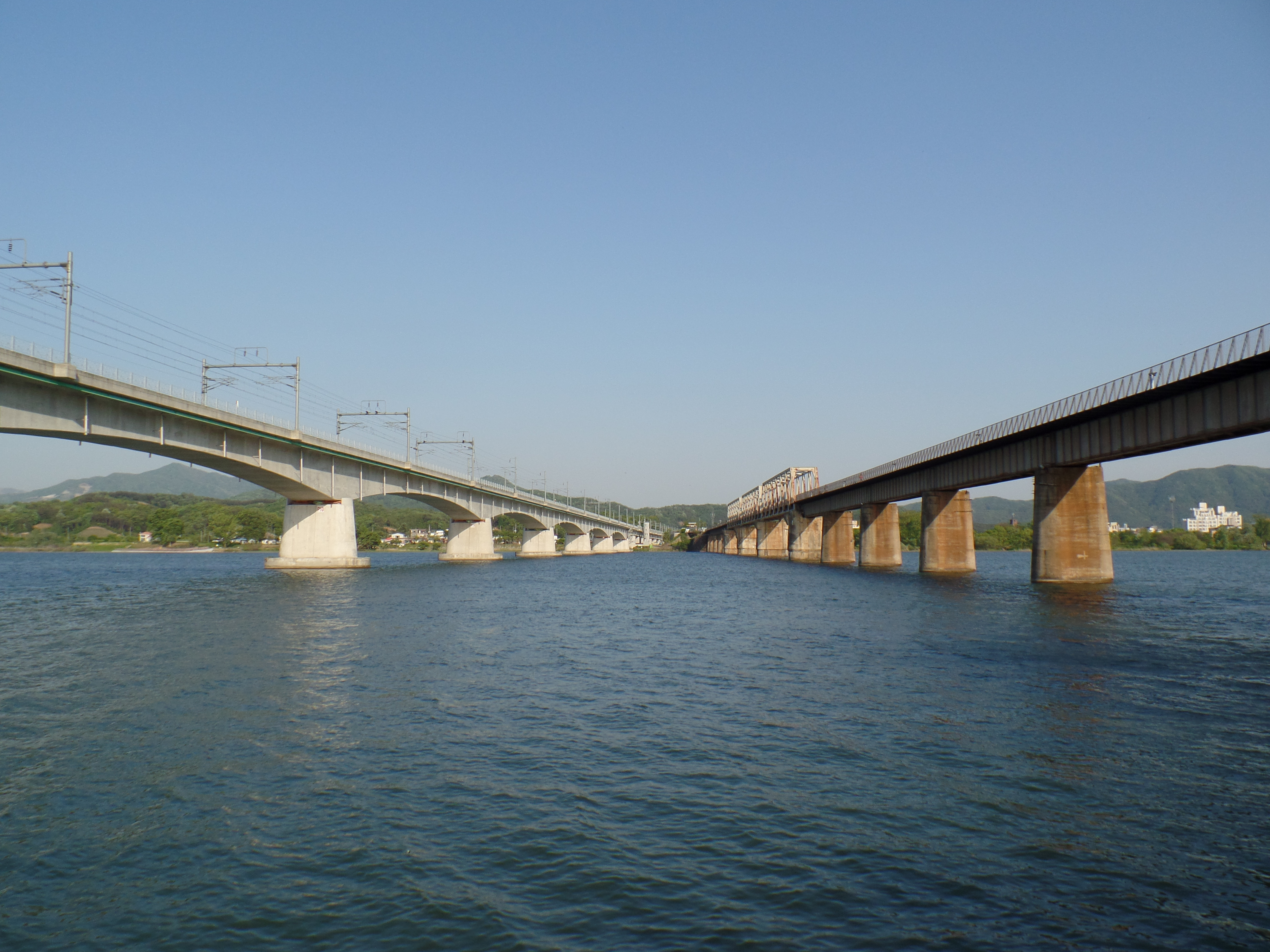 Jungang Line Yangsu Bridge and Old Jungang Line